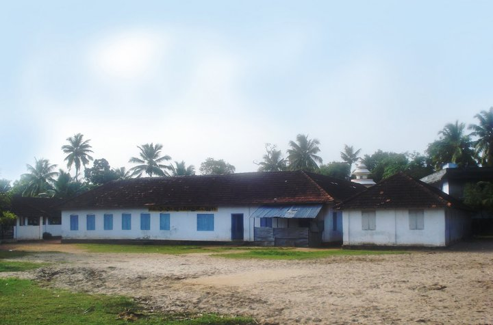 Upper Primary school Pallana